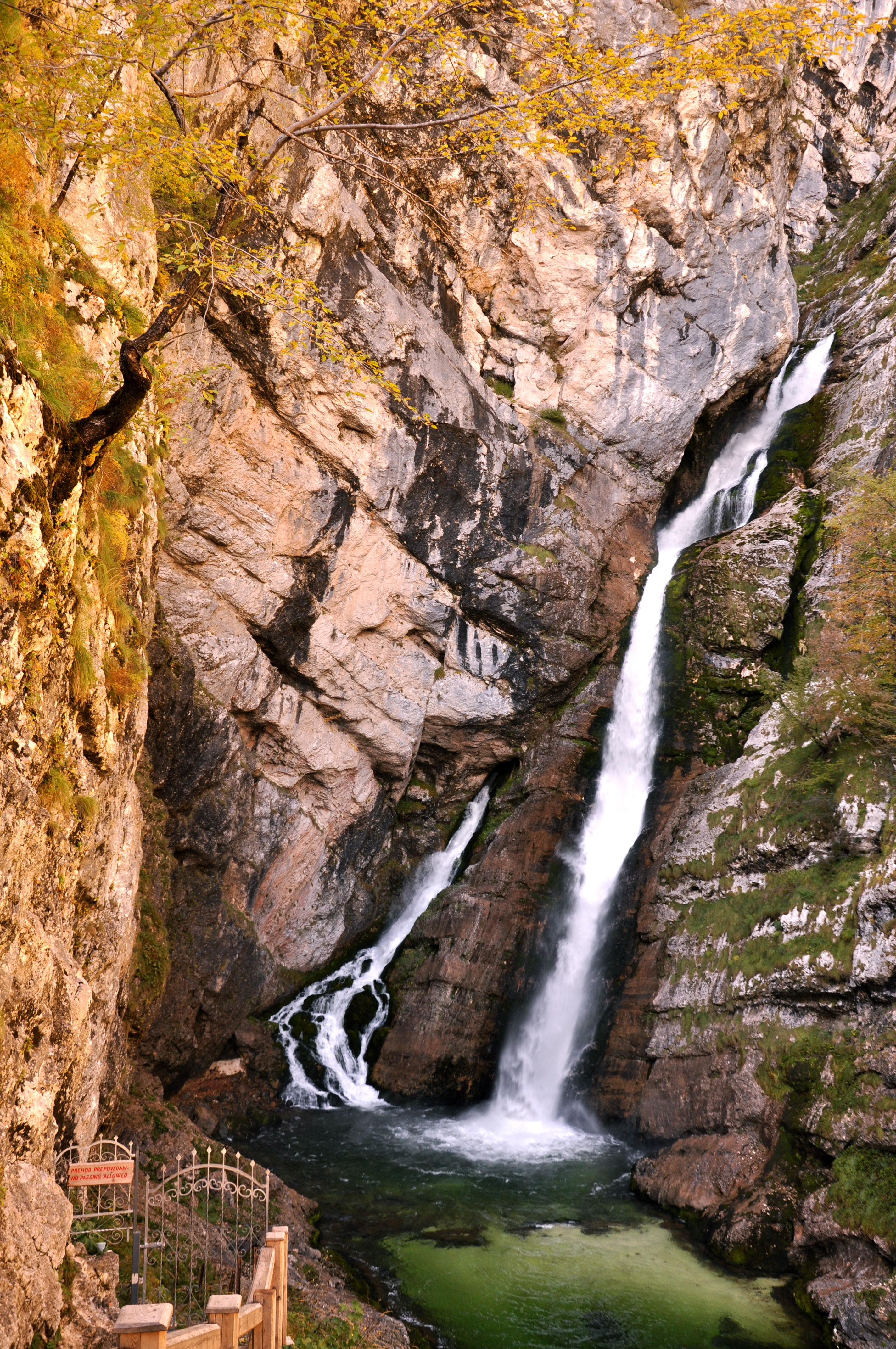 Savica Falls in Ukanc (Bohinj Valley).